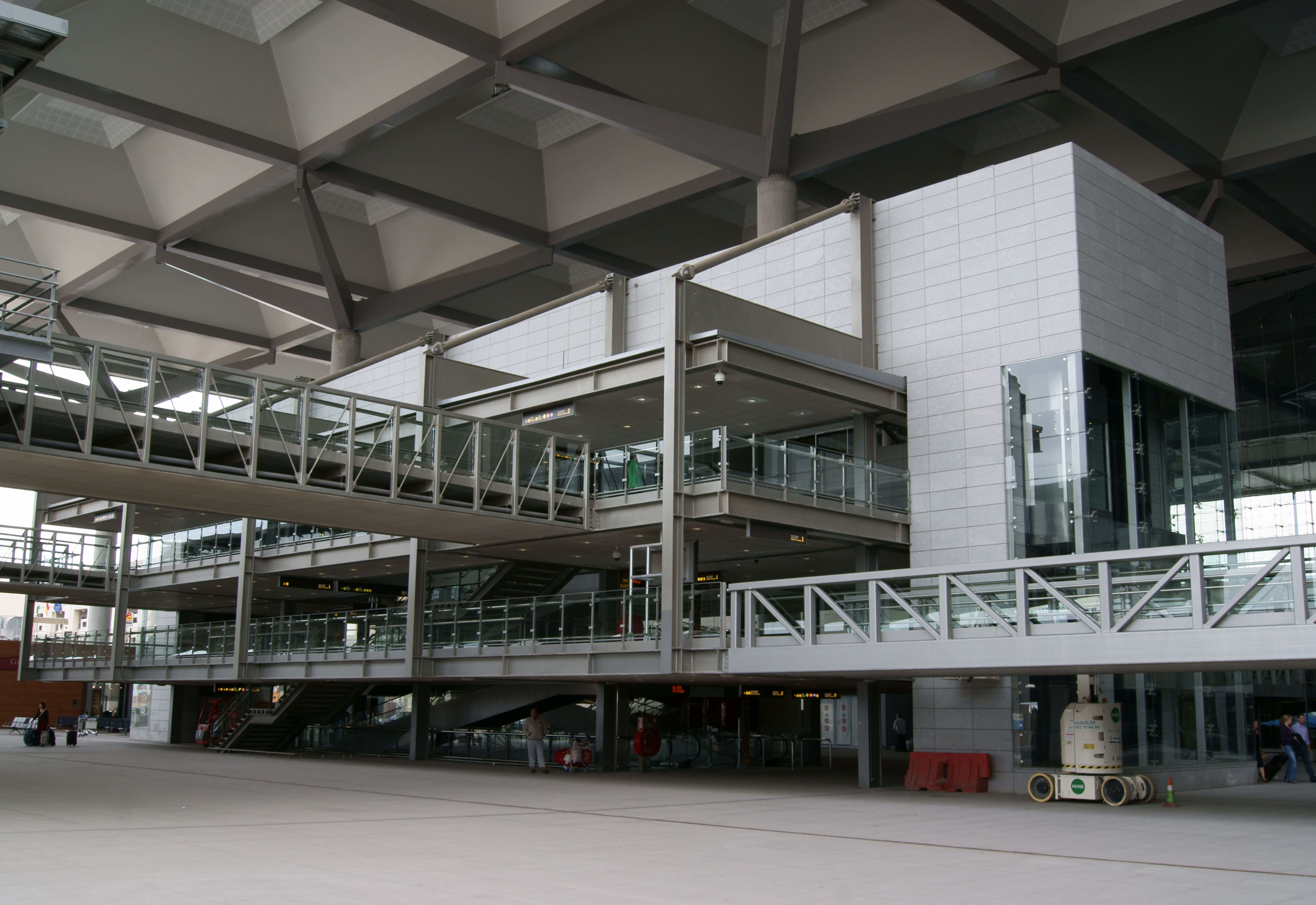 New transport interchange at Málaga airport brand new Terminal 3.